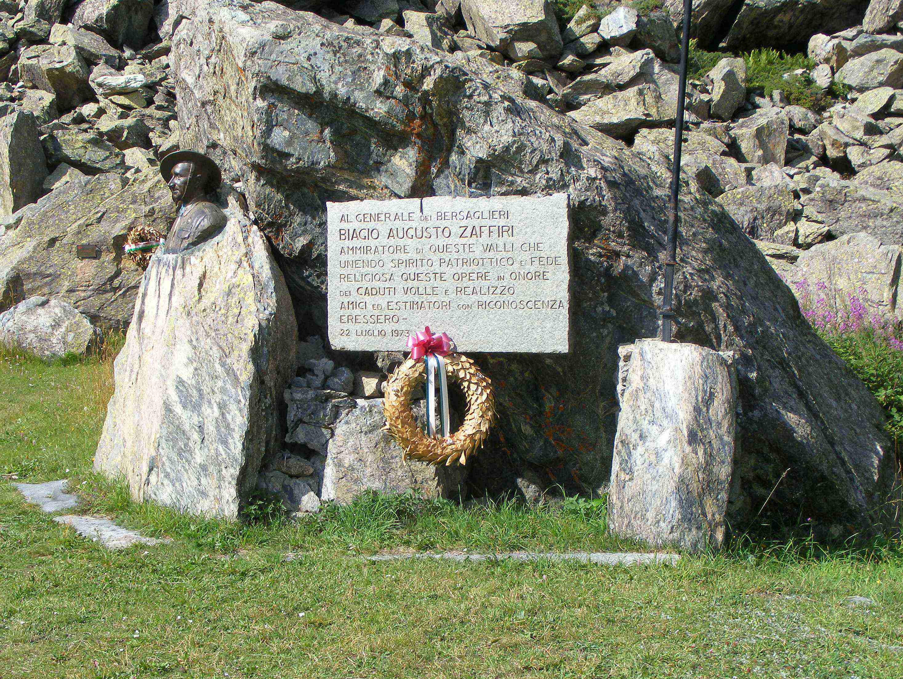 Pian della Mussa (TO, Italy): monument to gen. Zaffiri